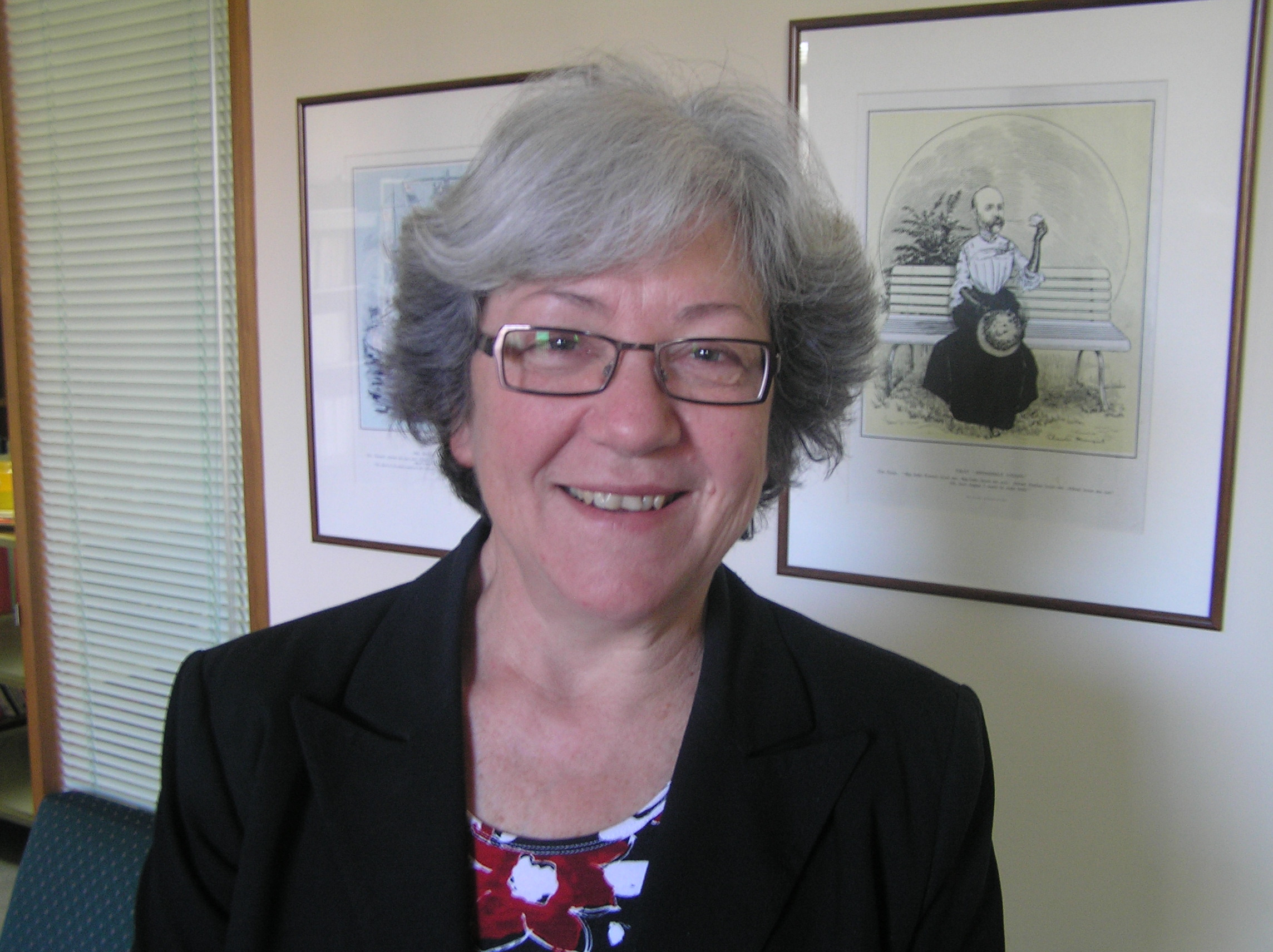 Carmen Lawrence, former Premier of Western Australia, Australian Federal MP and government minister.